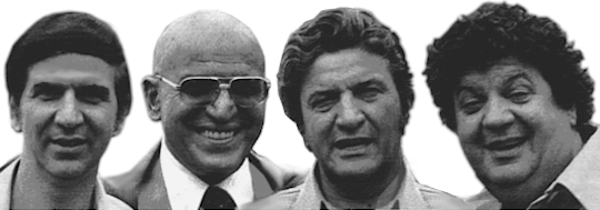 Pictured, left to right, are my uncles: Teddy Savalas, Telly Savalas, Gus Savalas, and my father, George Savalas.